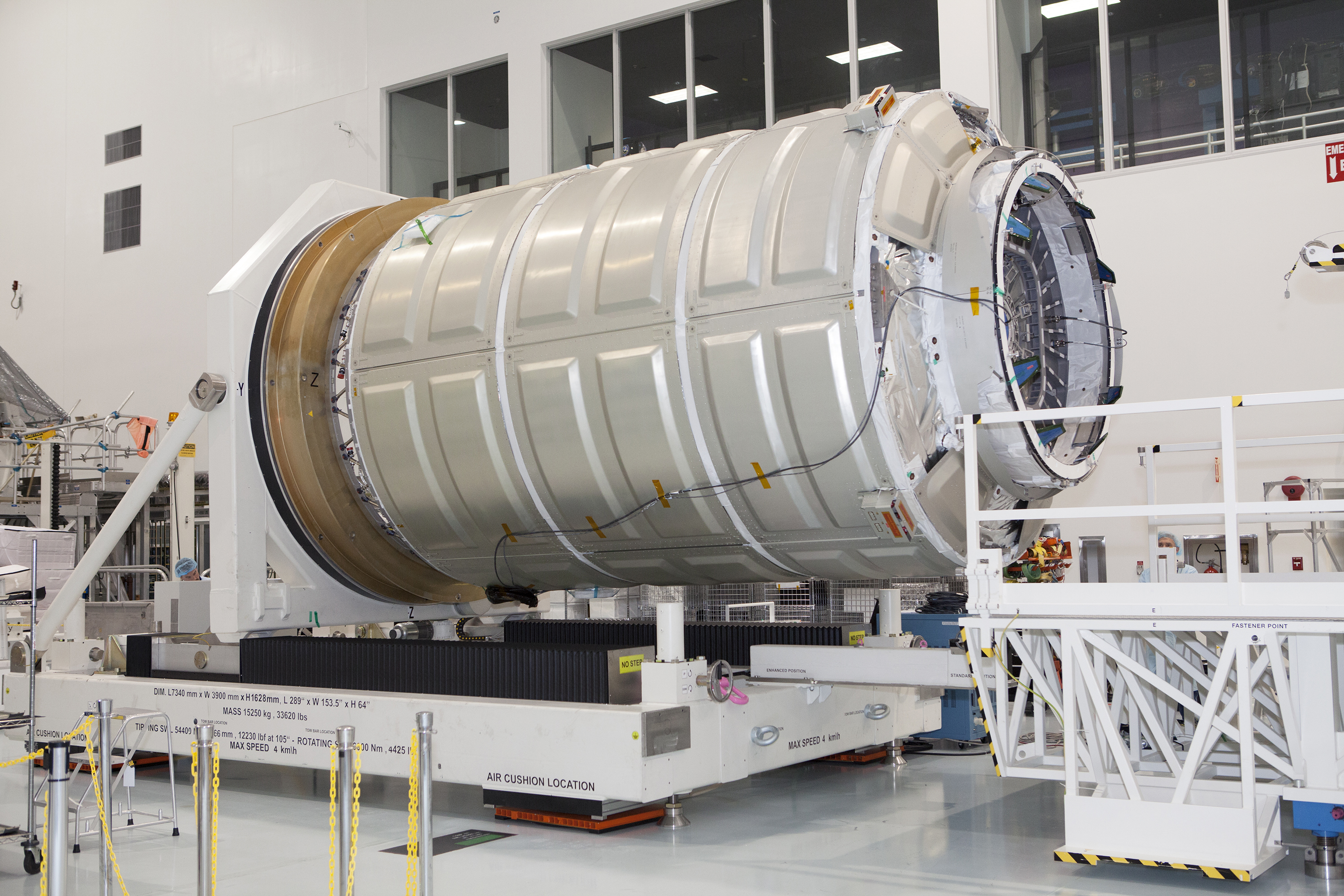 The Pressurized Cargo Module of the Cygnus spacecraft, built by Orbital ATK, sits anchored in its work stand as engineers prepare to rotate it to a vertical position so it can be joined to the service module. The processing is taking place inside Space Station Processing Facility at NASA's Kennedy Space Center in Florida. The spacecraft, which flies without a crew, has been loaded with equipment, supplies and research experiments that it will ferry to the International Space Station in orbit about 280 miles above Earth. The Cygnus is to launch atop a United Launch Alliance Atlas V rocket.